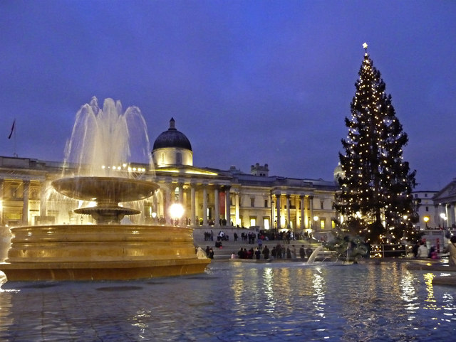 Trafalgar Square, London, W1 Looking across one of the fountains in Trafalgar Square towards the National Gallery with the Christmas tree on the right.